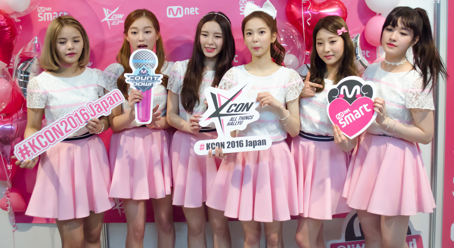 160409 CLC KCON Japan